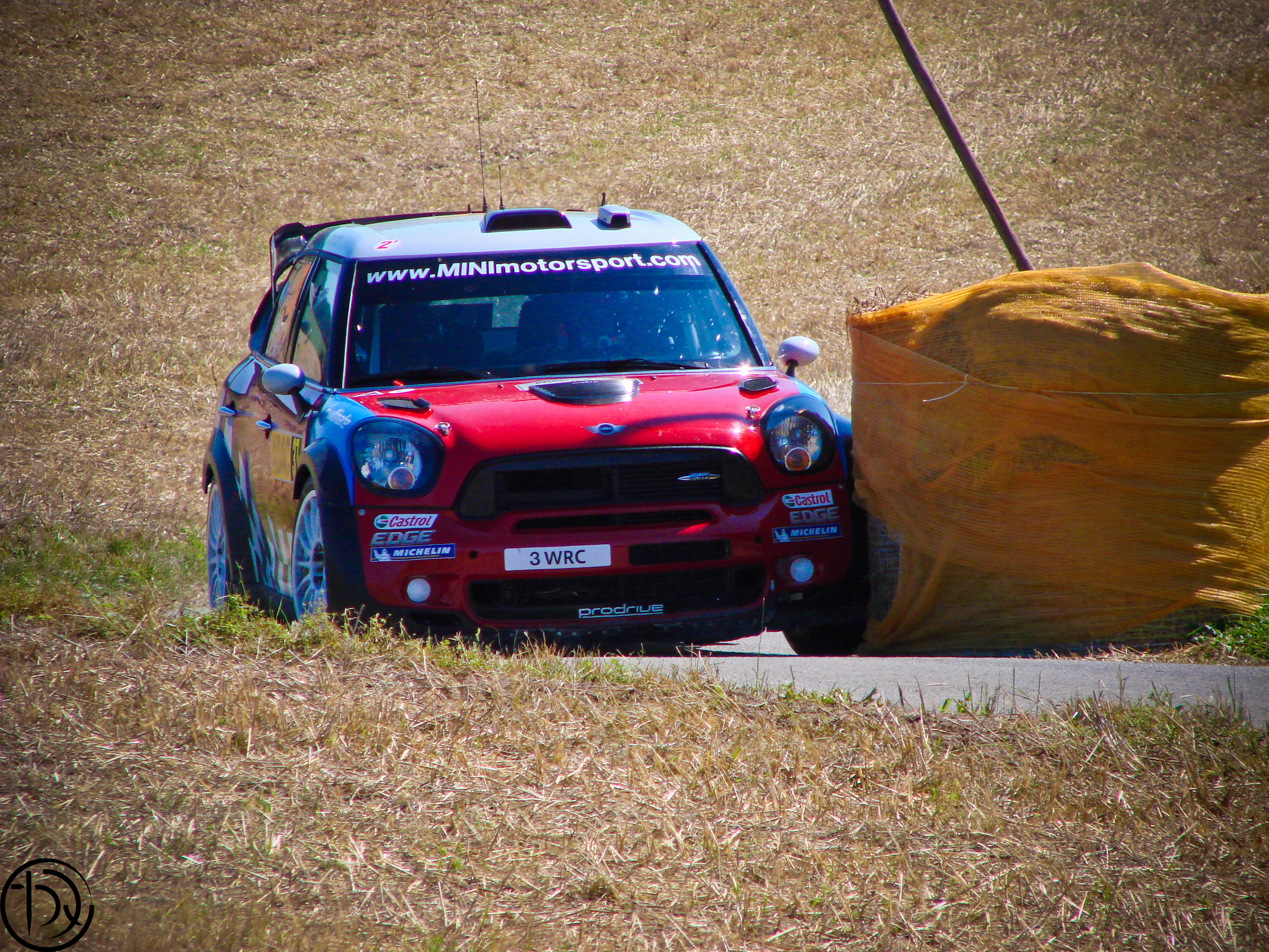 Dani Sordo drives his Mini John Cooper Works WRC at the 2011 Rallye Deutschland.